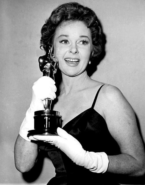 Press photo of Susan Hayward being awarded an Oscar for Best Actress in I Want to Live. Used for her obituary in 1975.